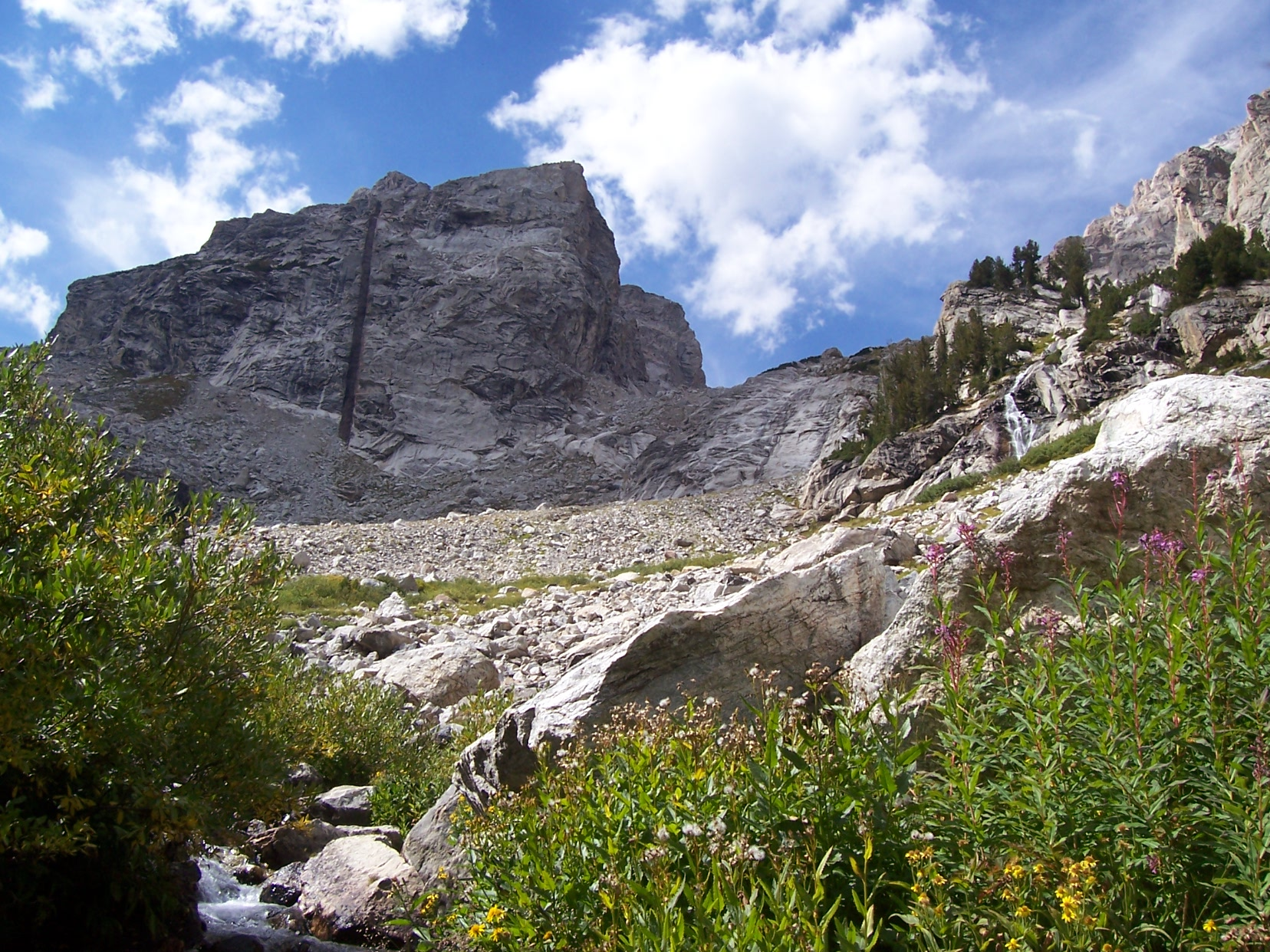 Middle Teton as seen from Garnet Canyon. The geological feature known as the Black Dike can be seen bisecting the peak.